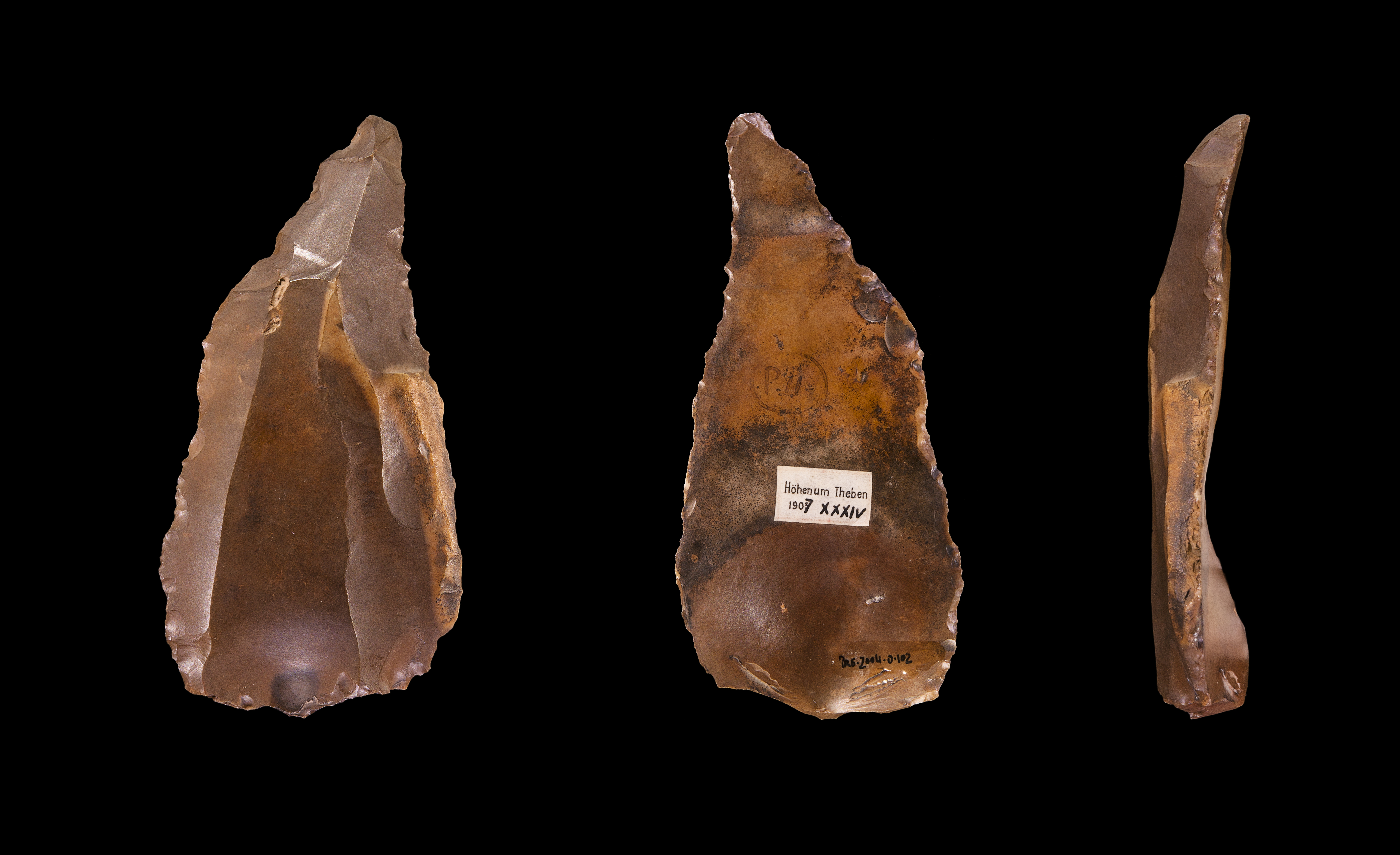 Blade - Different views of the same specimen